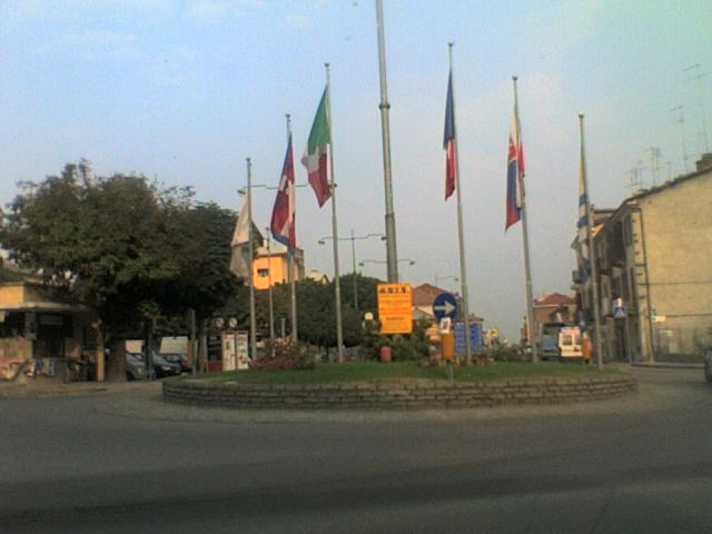 Roundabout in Luserna San Giovanni